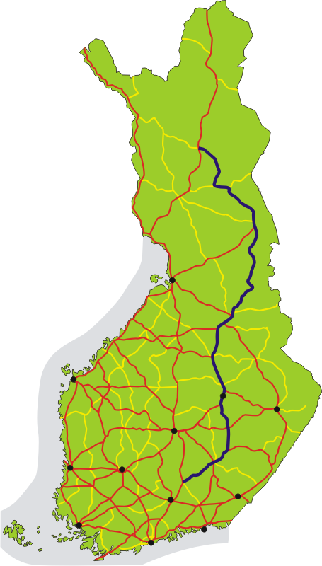 Map of the main road 5 in Finland, shown in dark blue. The other 1st class main roads (numbers 1–29) are red, 2nd class main roads (numbers 40–98) yellow. Black dots show the 12 biggest urban areas.